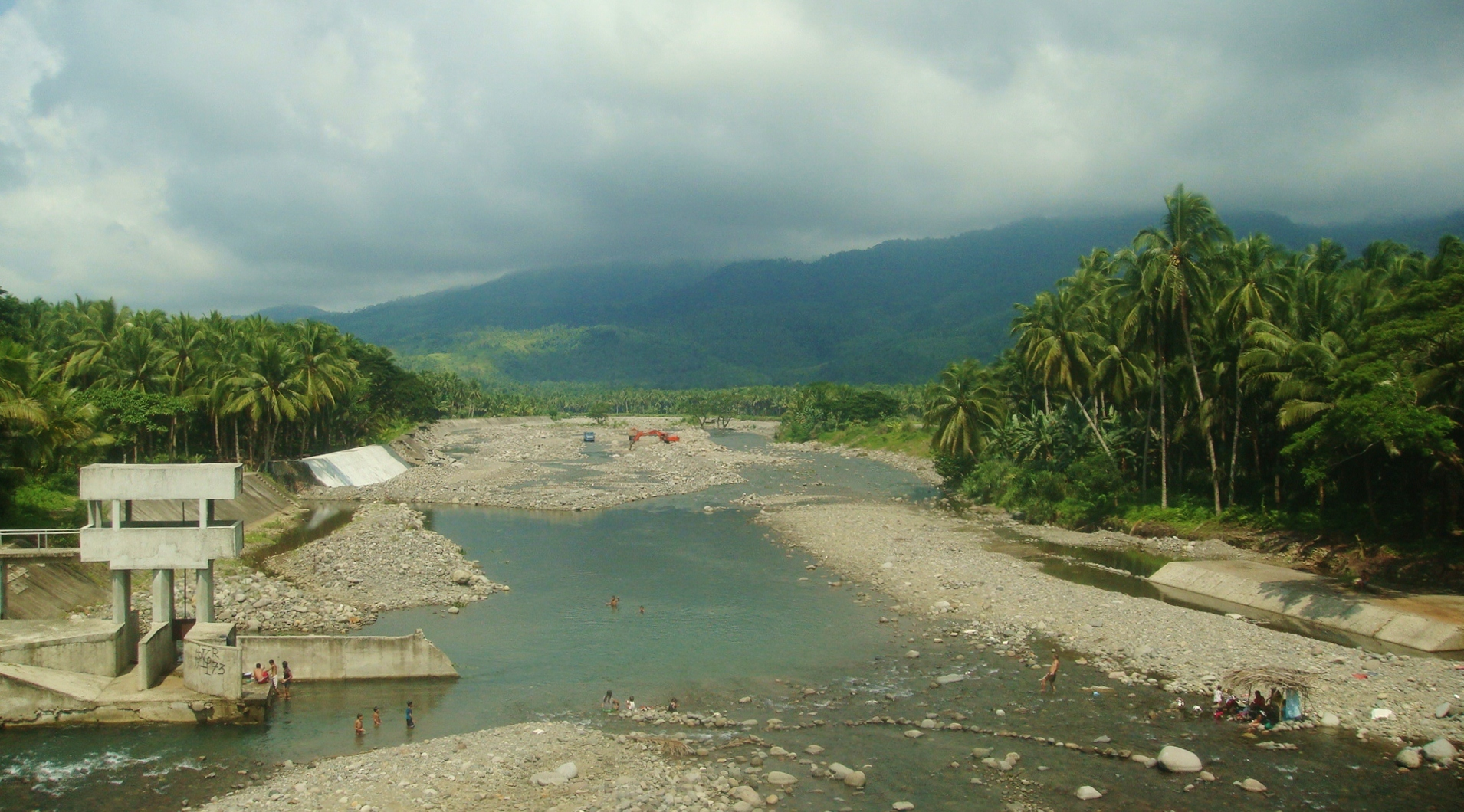 Subang Daku River (Big River)